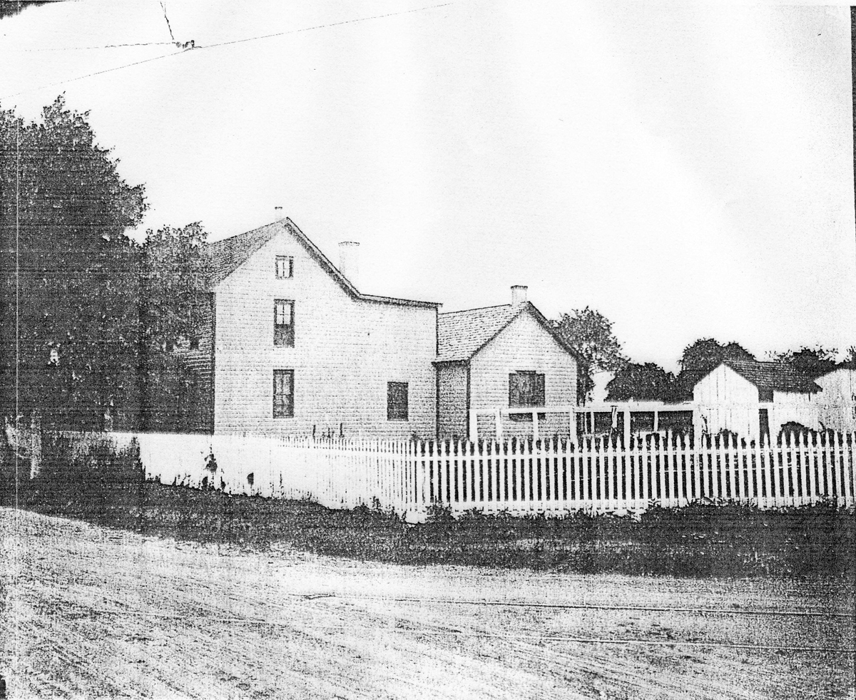 Gettysburg, The Henry Wentz House and outbuildings are in the background. The trolley tracks turning from the Emmitsburg Road to the Wheatfield Road are barely visible in the foreground.